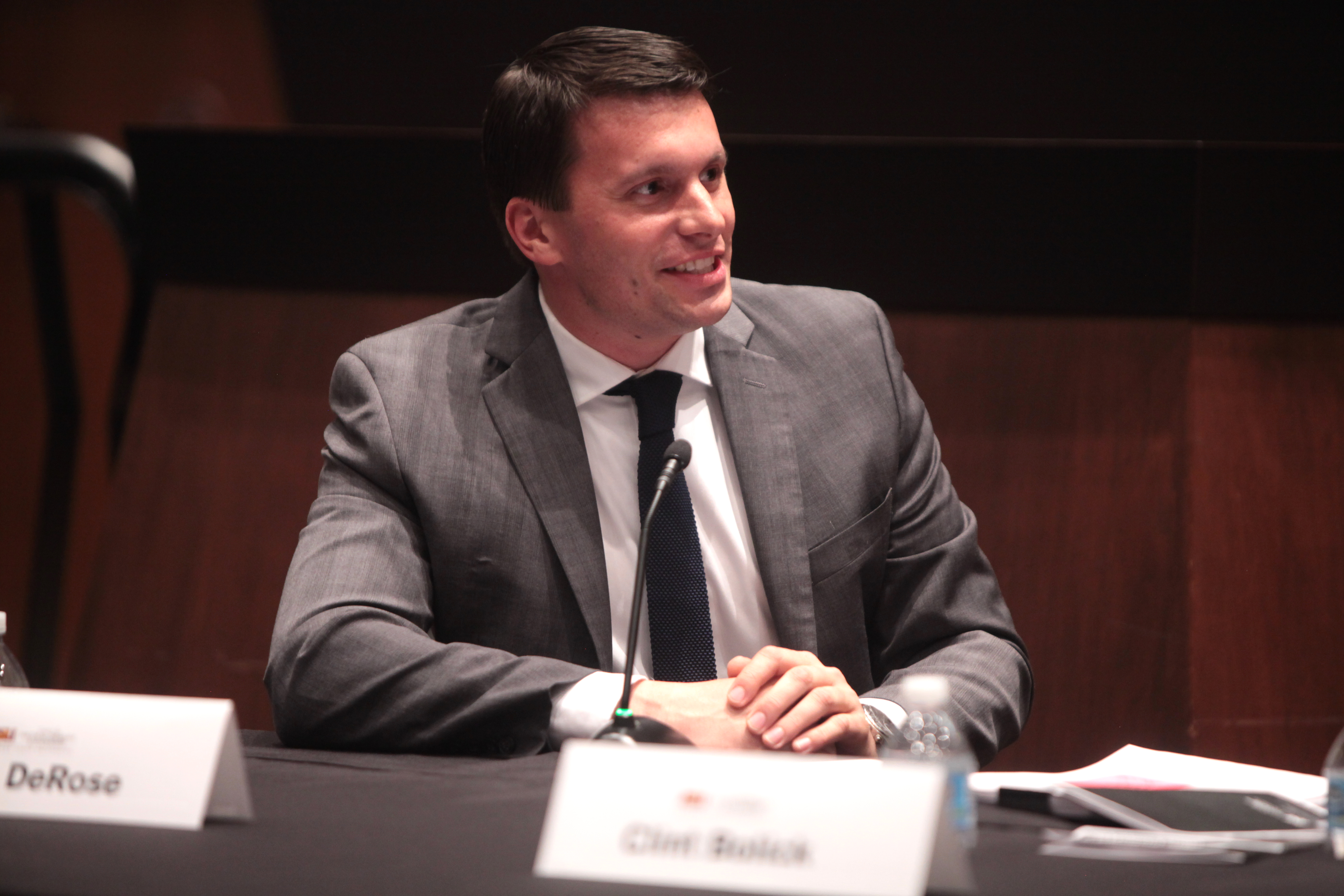 Chris DeRose speaking with attendees at an event titled "New Challenges to Constitutional Law" hosted by the Arizona State University Center for Political Thought & Leadership at the Sandra Day O'Connor College of Law in Tempe, Arizona.